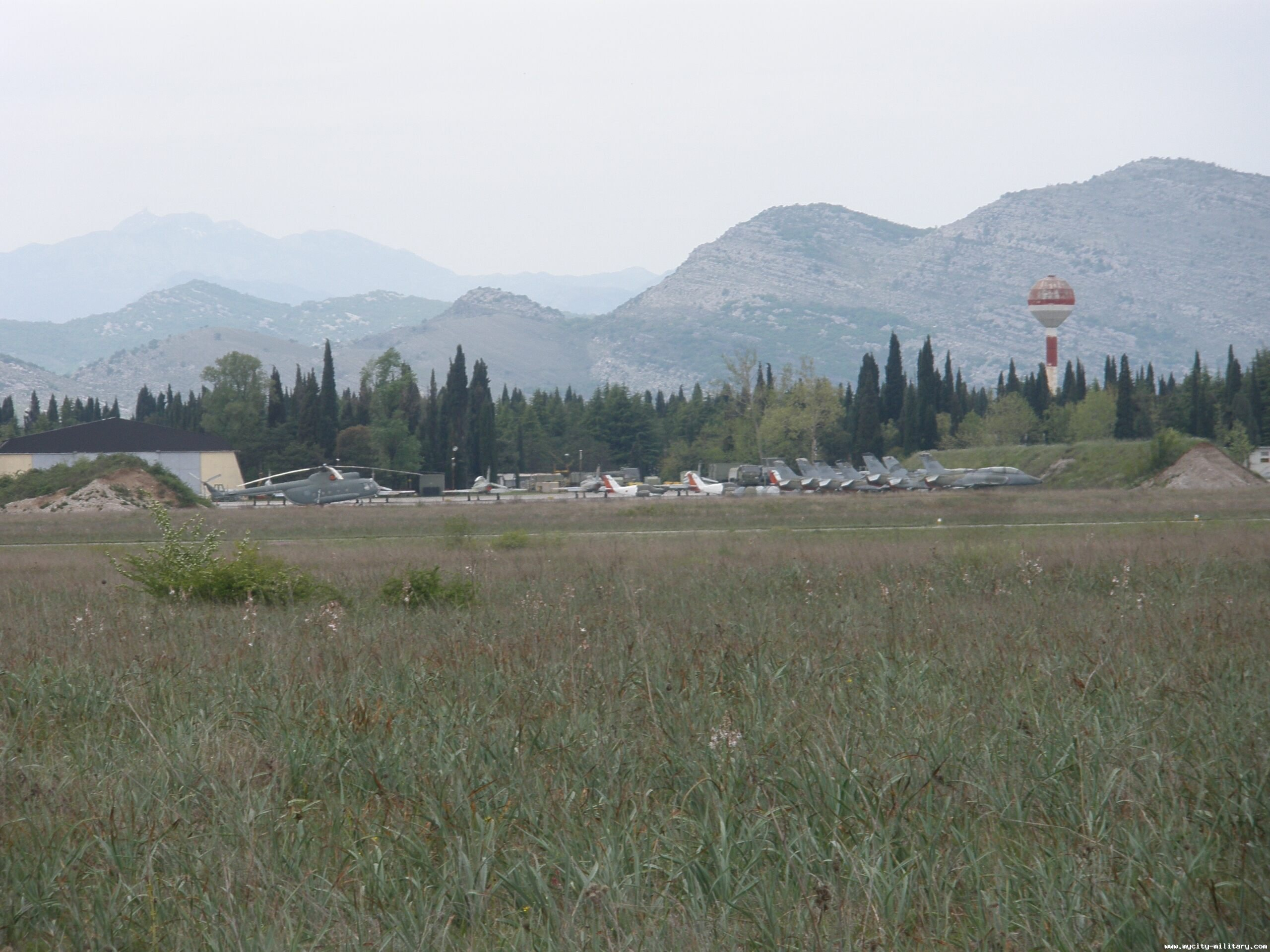 A picture of all aircraft at Golubovci air base in Montenegro